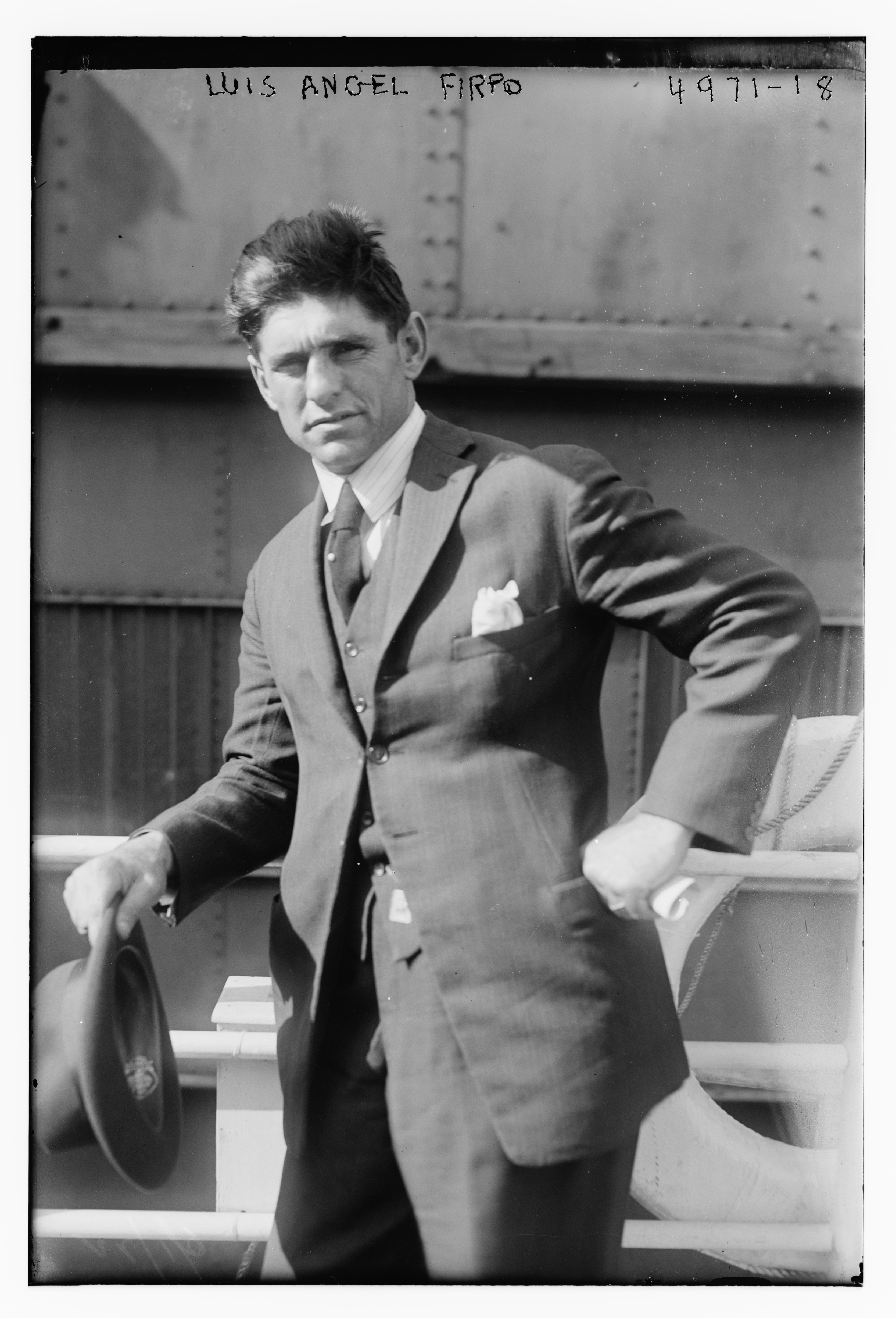 Argentine boxer Luis Ángel Firpo. Bain News Service, publisher